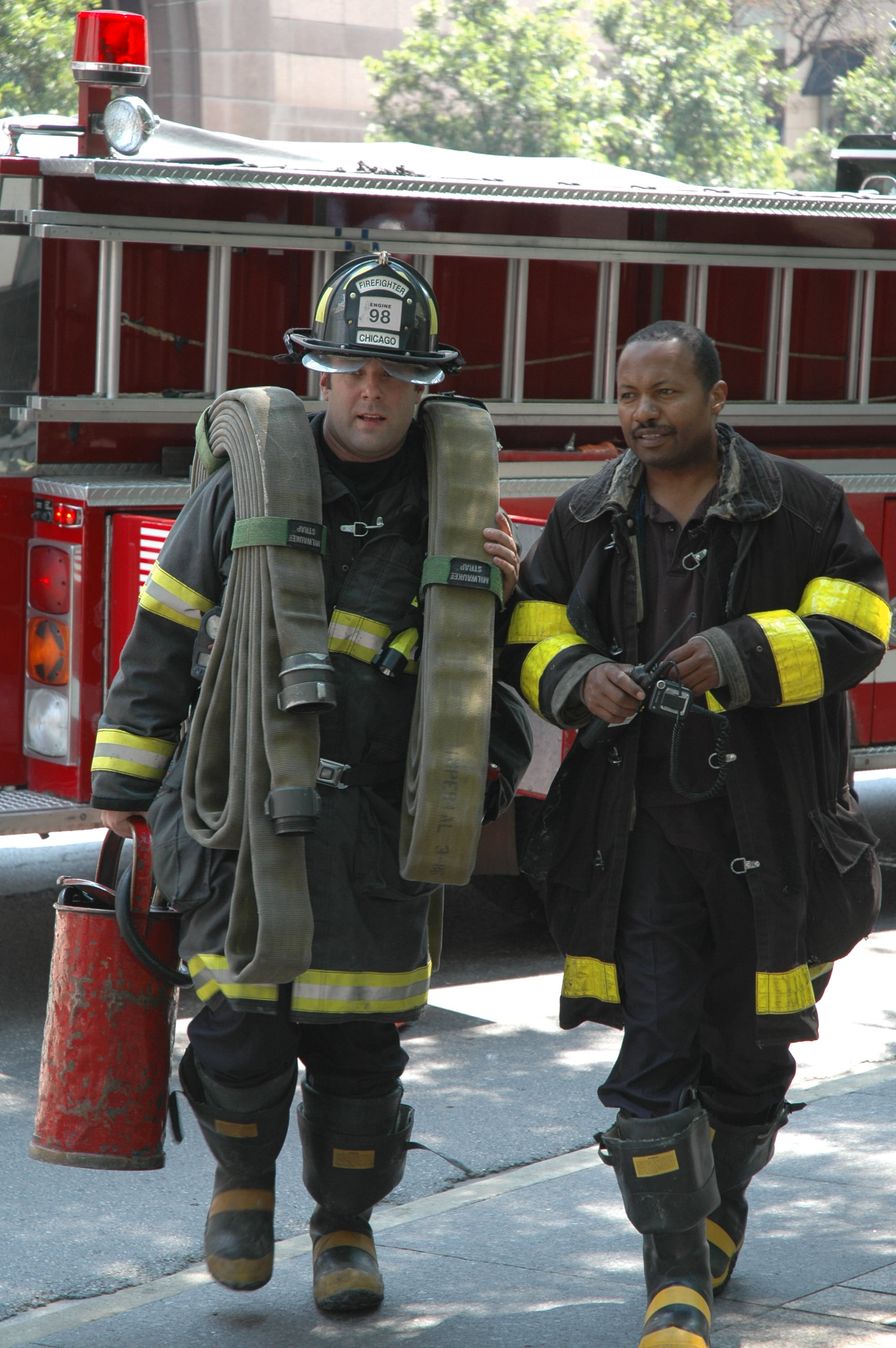 Chicago fire fighters walking